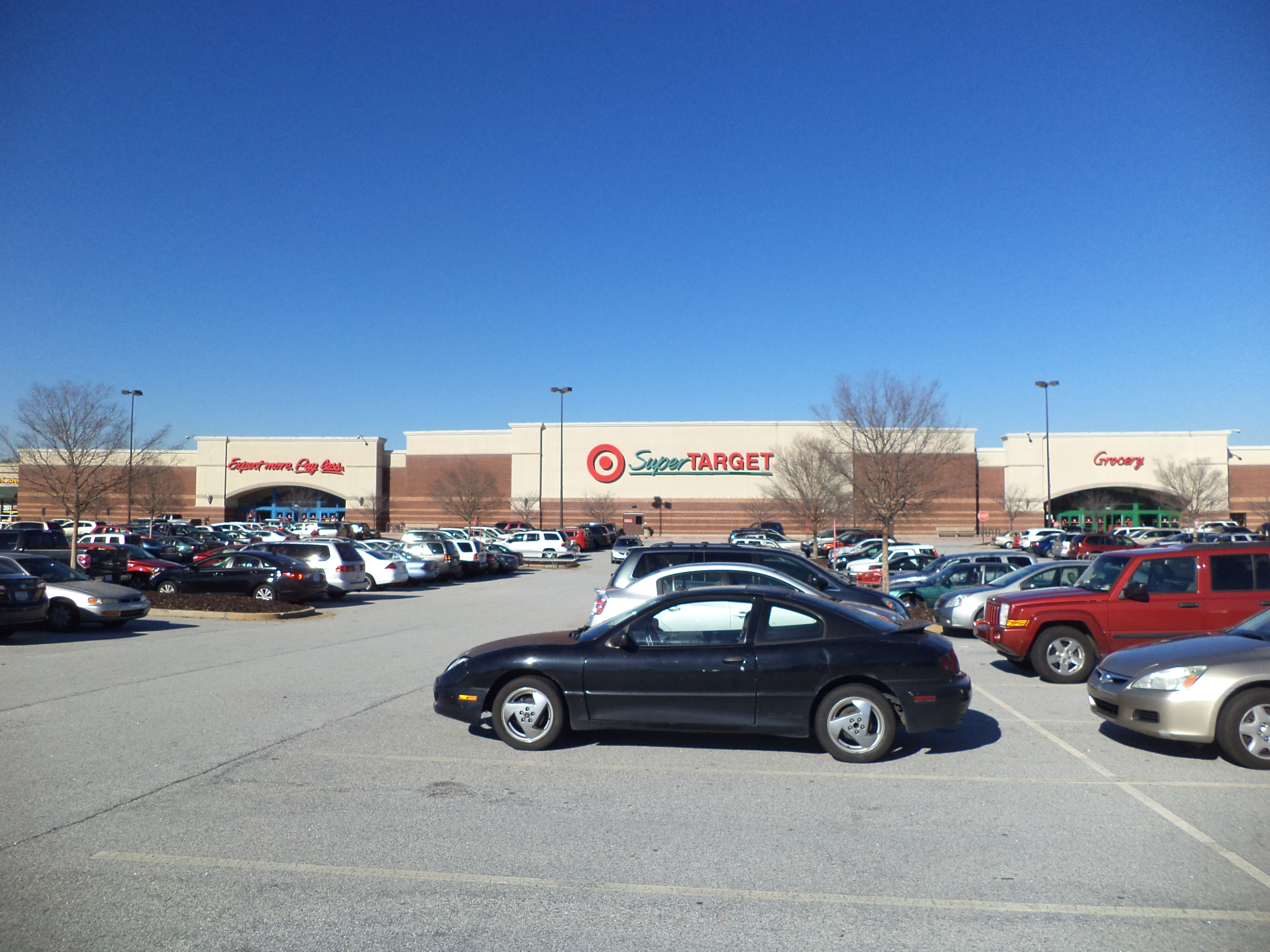 Super Target, McDonough, Henry County, Georgia